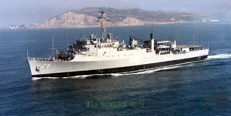 The U.S. Navy amphibious transport dock ship USS Thomaston (LSD-28) underway off Point Loma, California (USA).